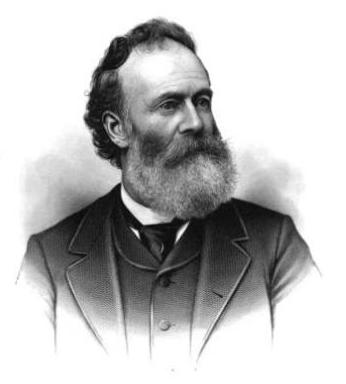 Henry A. Smith, after whom Seattle, Washington's Smith Cove is named.